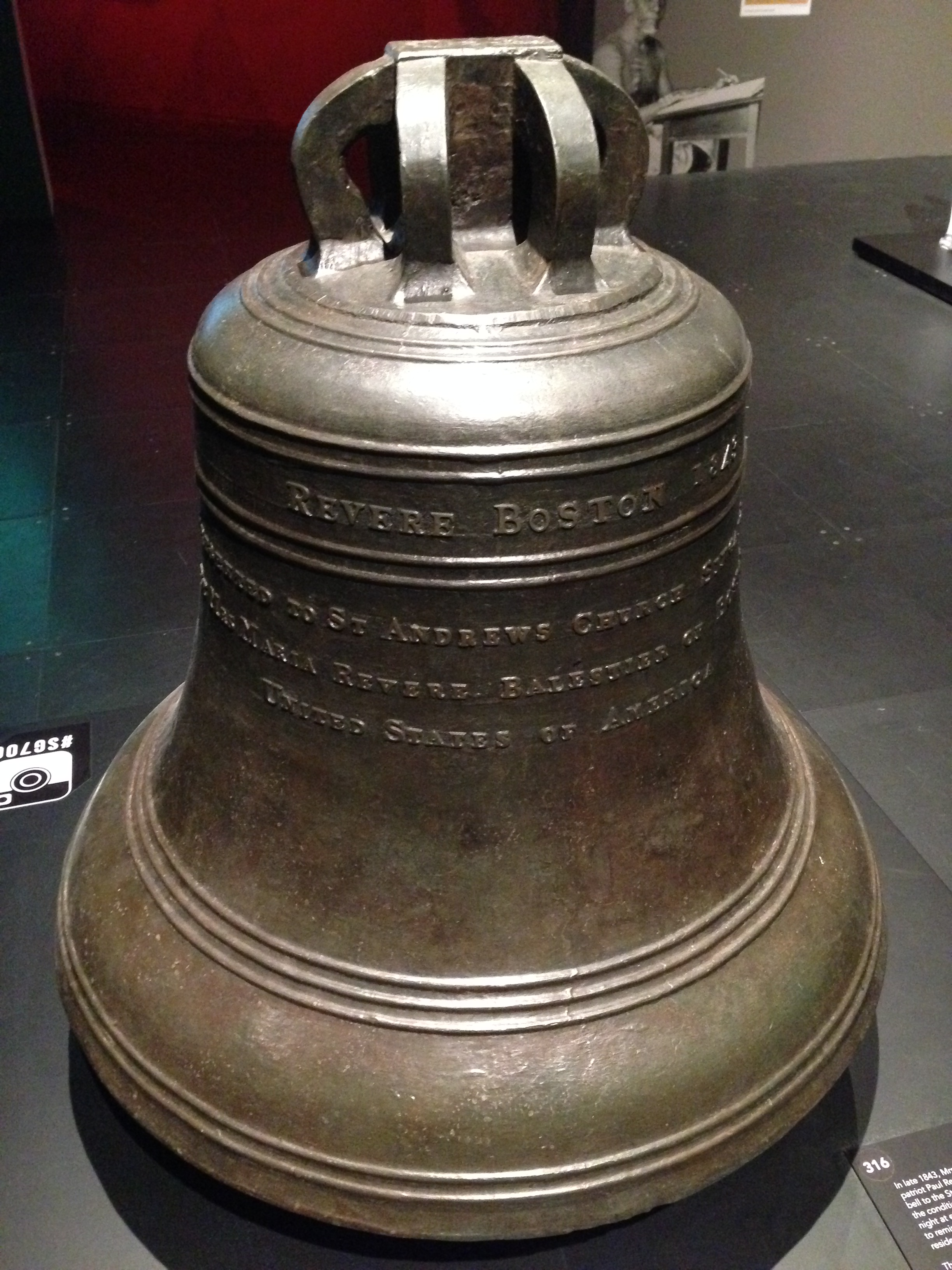 The Revere Bell, which is in the collection of the National Museum of Singapore (accession number PA-0756-A). It was donated by Mrs. Maria Revere Balestier, daughter of Paul Revere and wife of Joseph Balestier (the first US consul in Riau and Singapore), to St Andrew's Cathedral, Singapore, in 1843 on condition that it was used to sound a curfew at 8:00 pm every night. The bell was replaced on 6 February 1889. Measuring 81 cm in height and about 89 cm in diameter, the Revere Bell was cast by the Revere Copper Company in Boston, Massachusetts, USA. It is the only bell manufactured by the company outside the United States. The inscription of the bell is: "Revere, Boston 1843. Presented to St Andrew's Church, Singapore, by Mrs Maria Revere Balestier of Boston, United States of America".